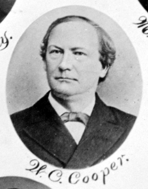 William Craig Cooper, cropped from composite photograph of the two senators and twenty-one members of the house of representatives comprising the Ohio delegation of the 50th Congress.